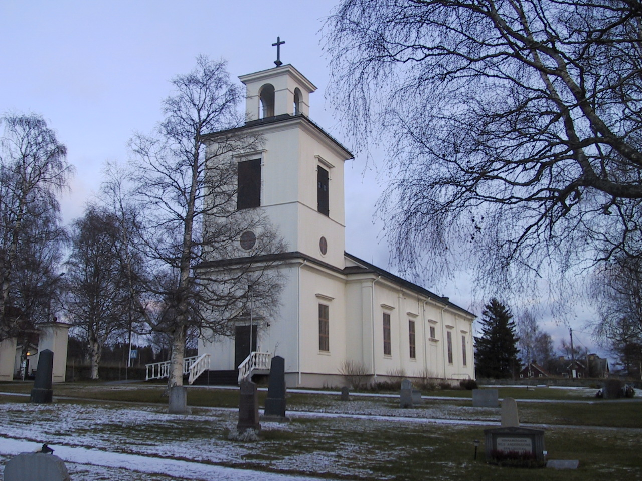 Skorpeds kyrka in Skorped, Sweden